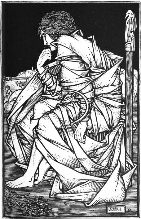 Captioned as "Frey had himself seated on the throne of Odin". Seated on Odin's throne Hliðskjálf, the god Freyr sits in contemplation. In his hand he holds a sickle and next to the throne sits a sheaf.